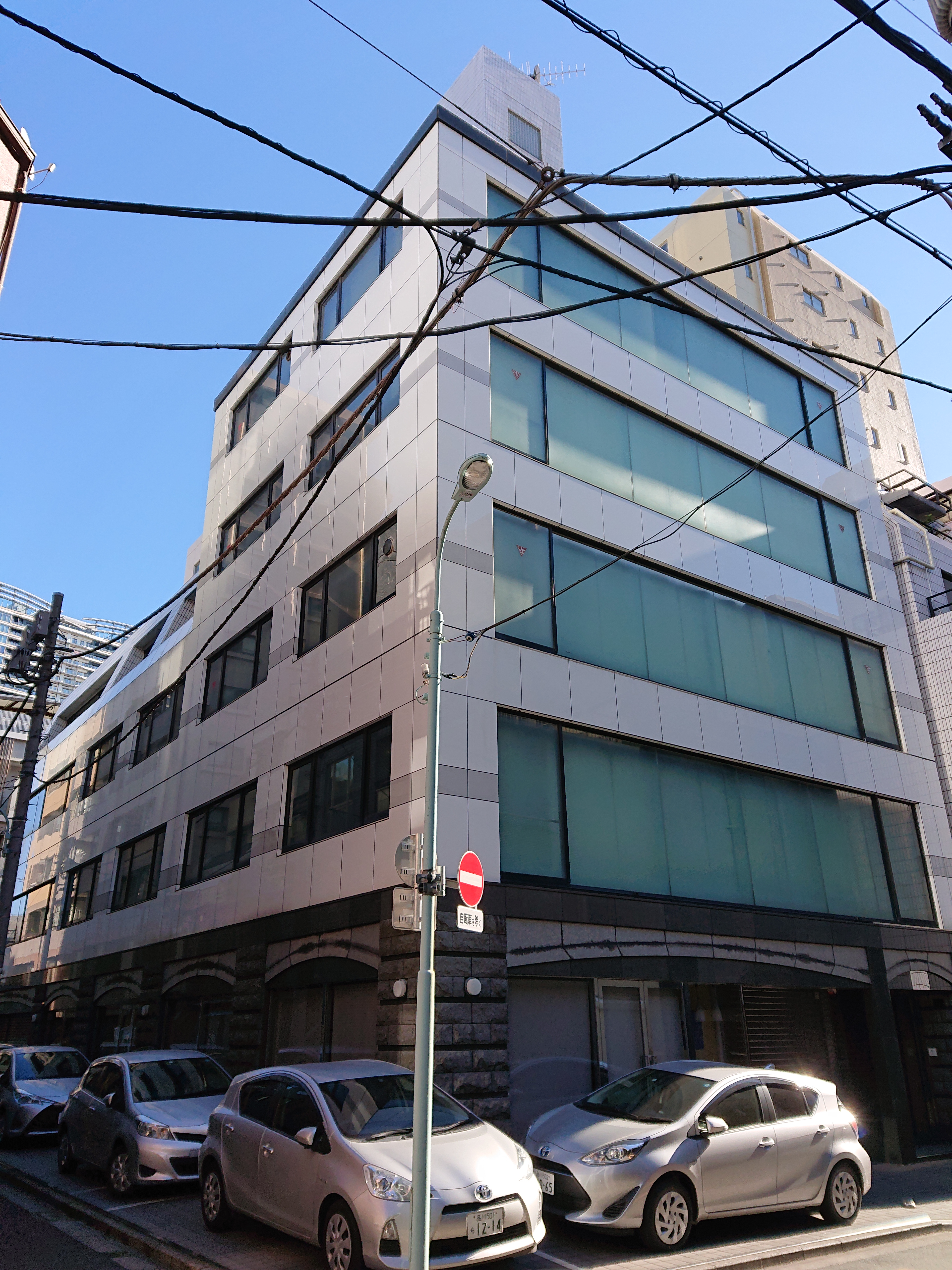 Gaban headquarters, located at 1-9-12 Irifune, Chuo, Tokyo, Japan